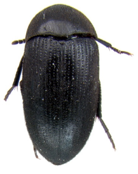 Dorsal view of Eustrophopsis confinis, TL = 5.4 mm